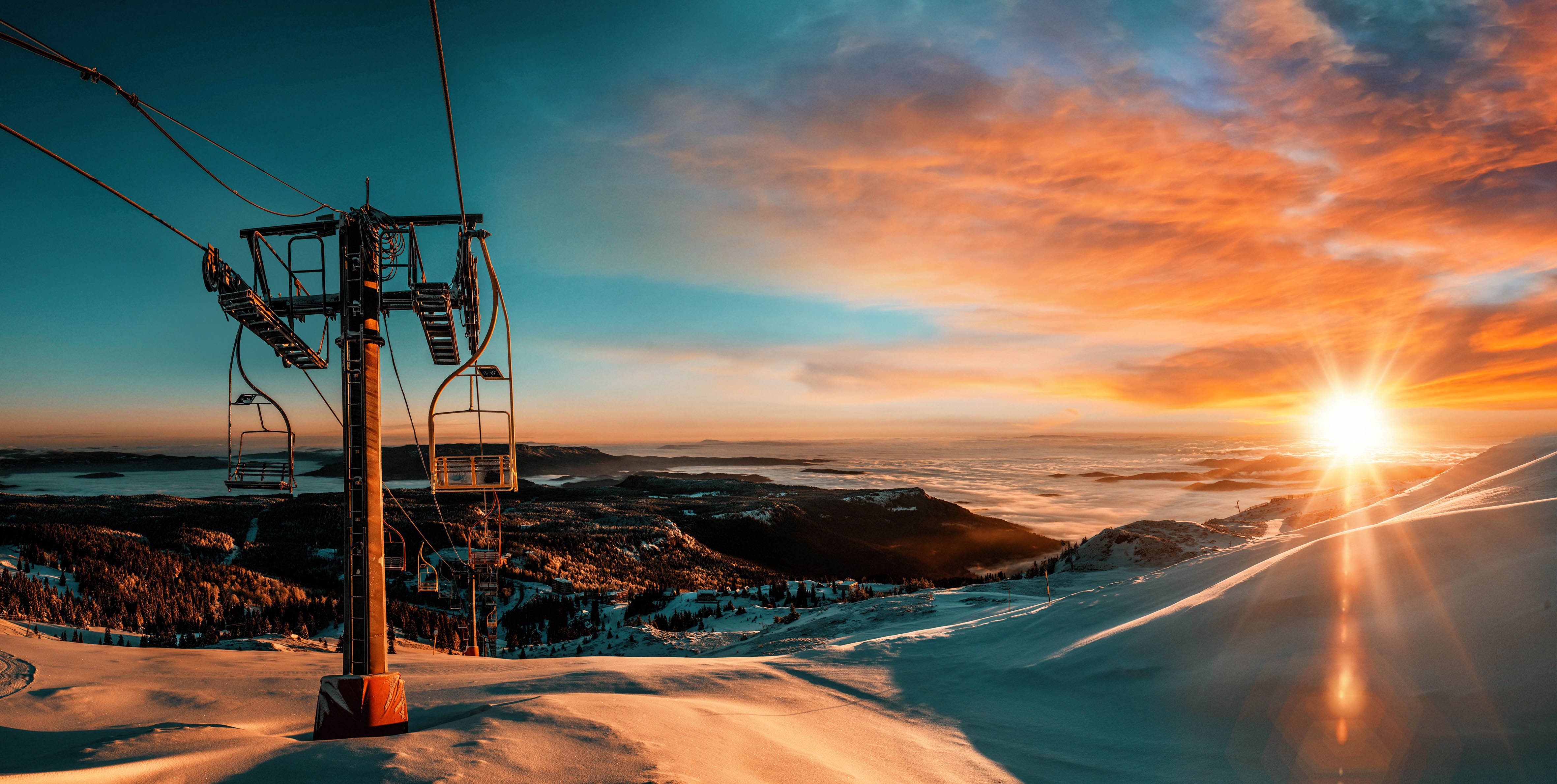 Jahorina mountain during march 2018.